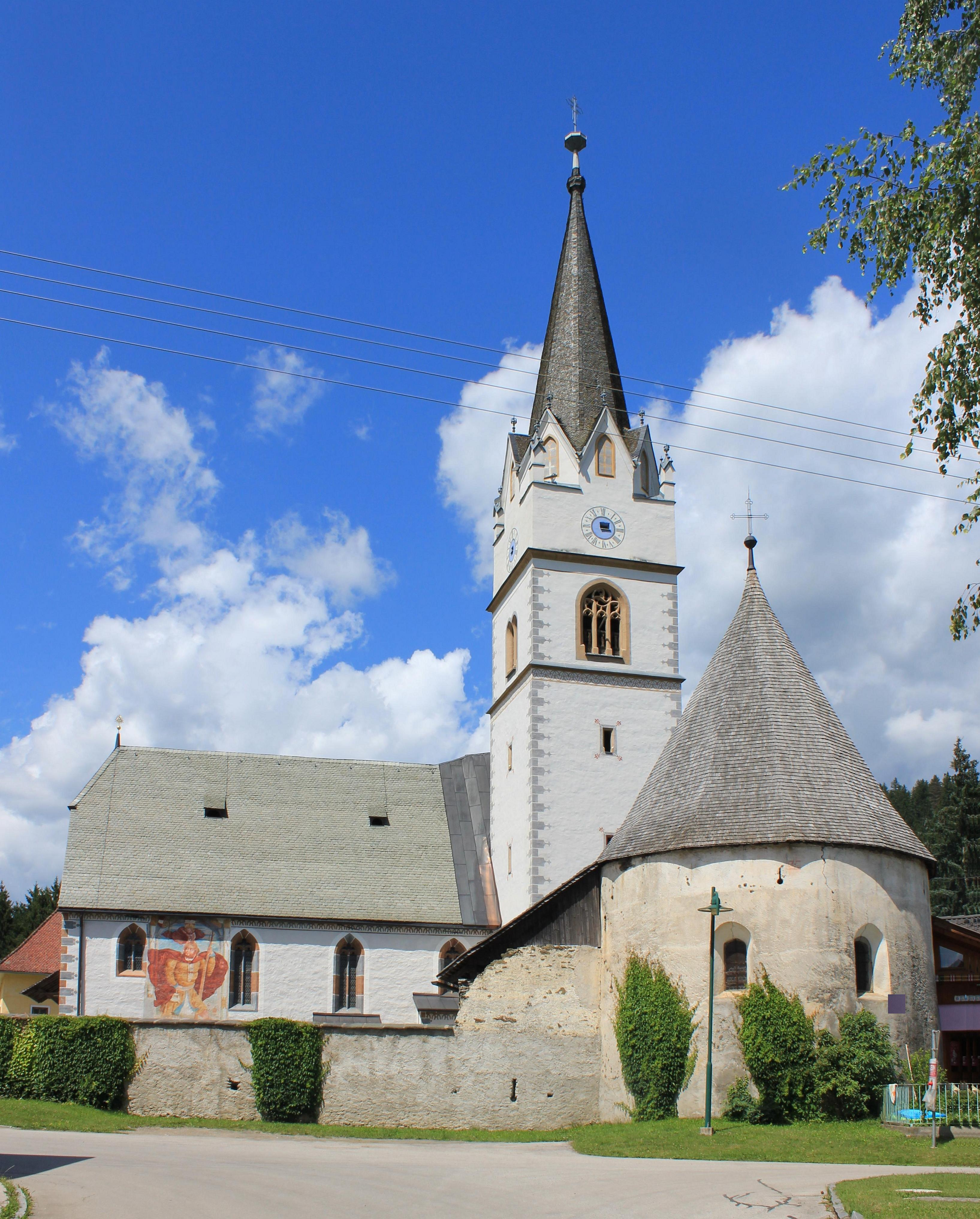 Parish church Altenmarkt in the market town Weitensfeld im Gurktal